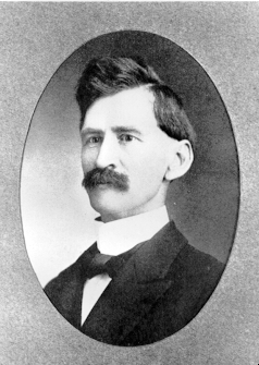 Photo from Colorado State Archives, No copyright claimed by the Archives